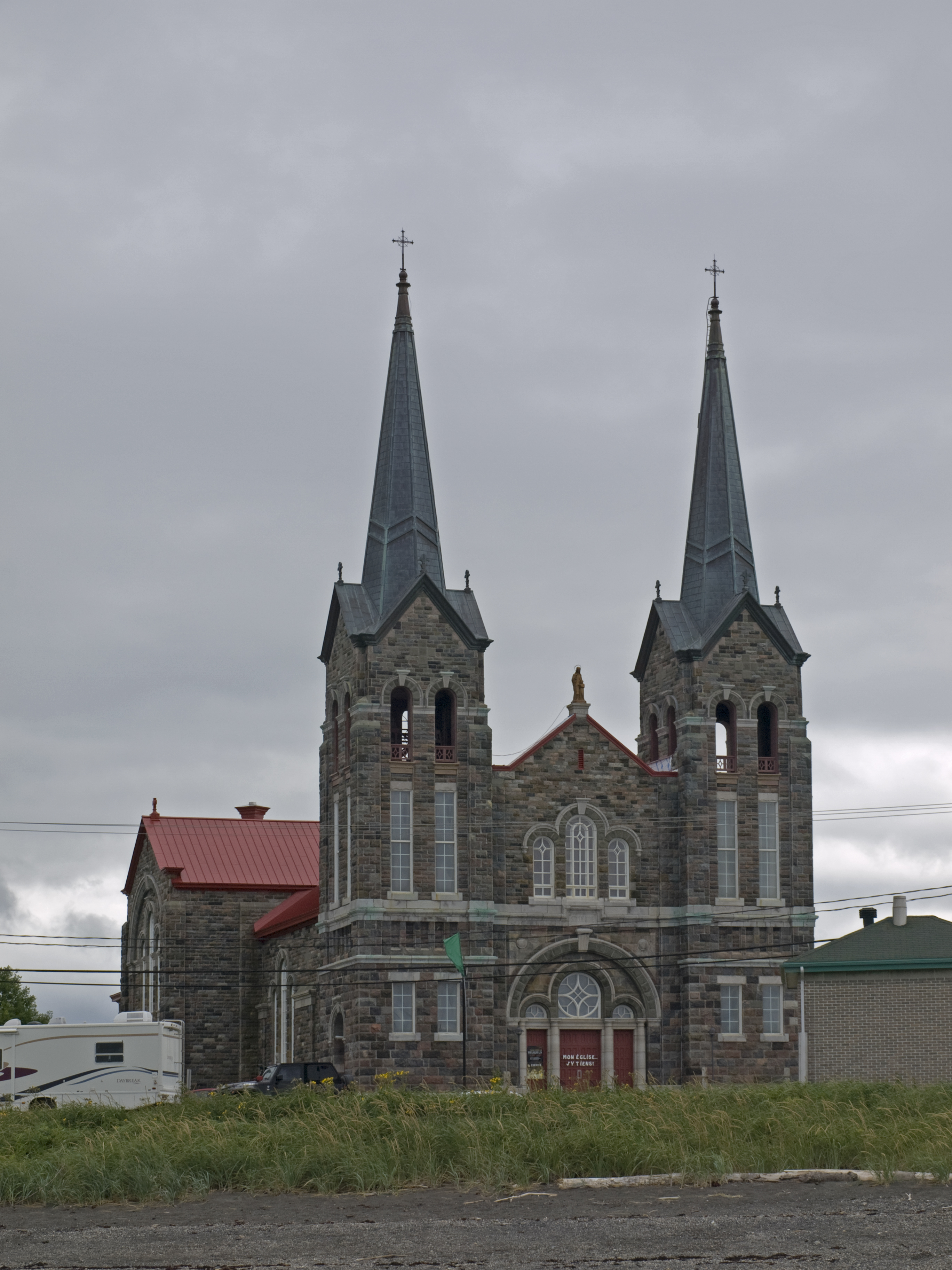 Exterior of the church of Sainte-Anne-des-Monts exterior